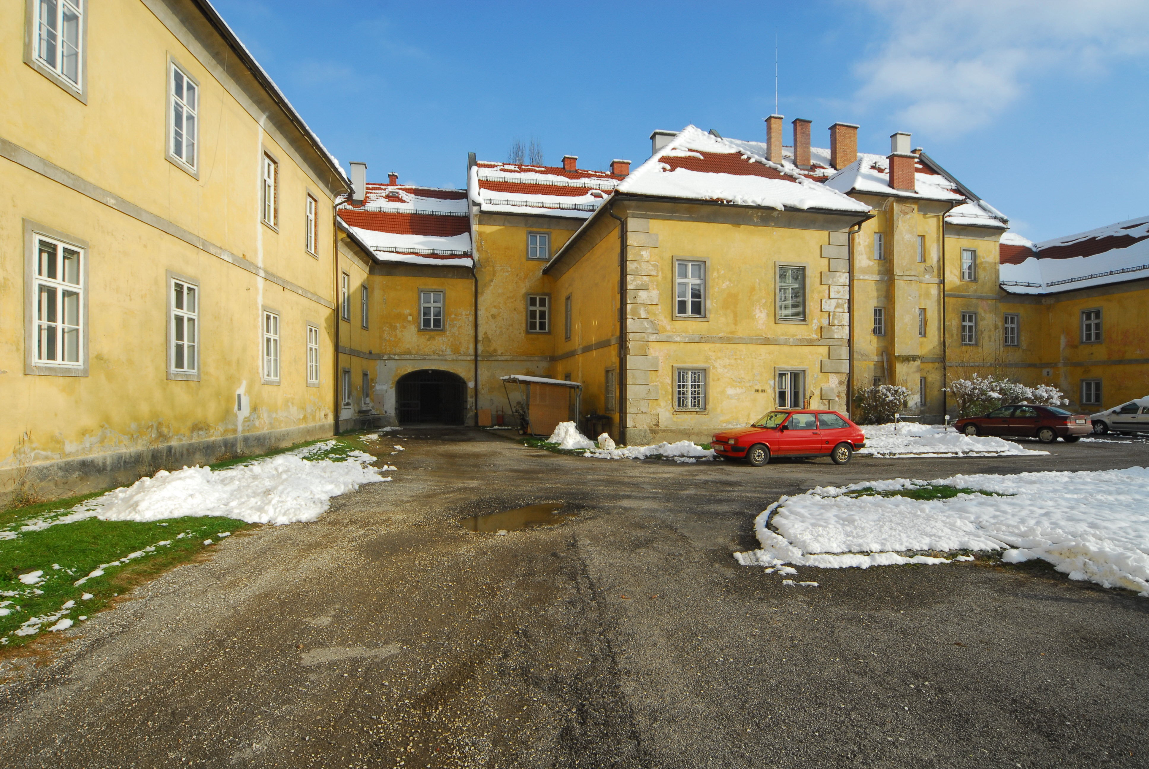 Former military hospital in the Lerchenfeldstrasse #51, situated in the 8th district “Villacher Vorstadt” of the Carinthian capital Klagenfurt on the Lake Woerth, Carinthia, Austria